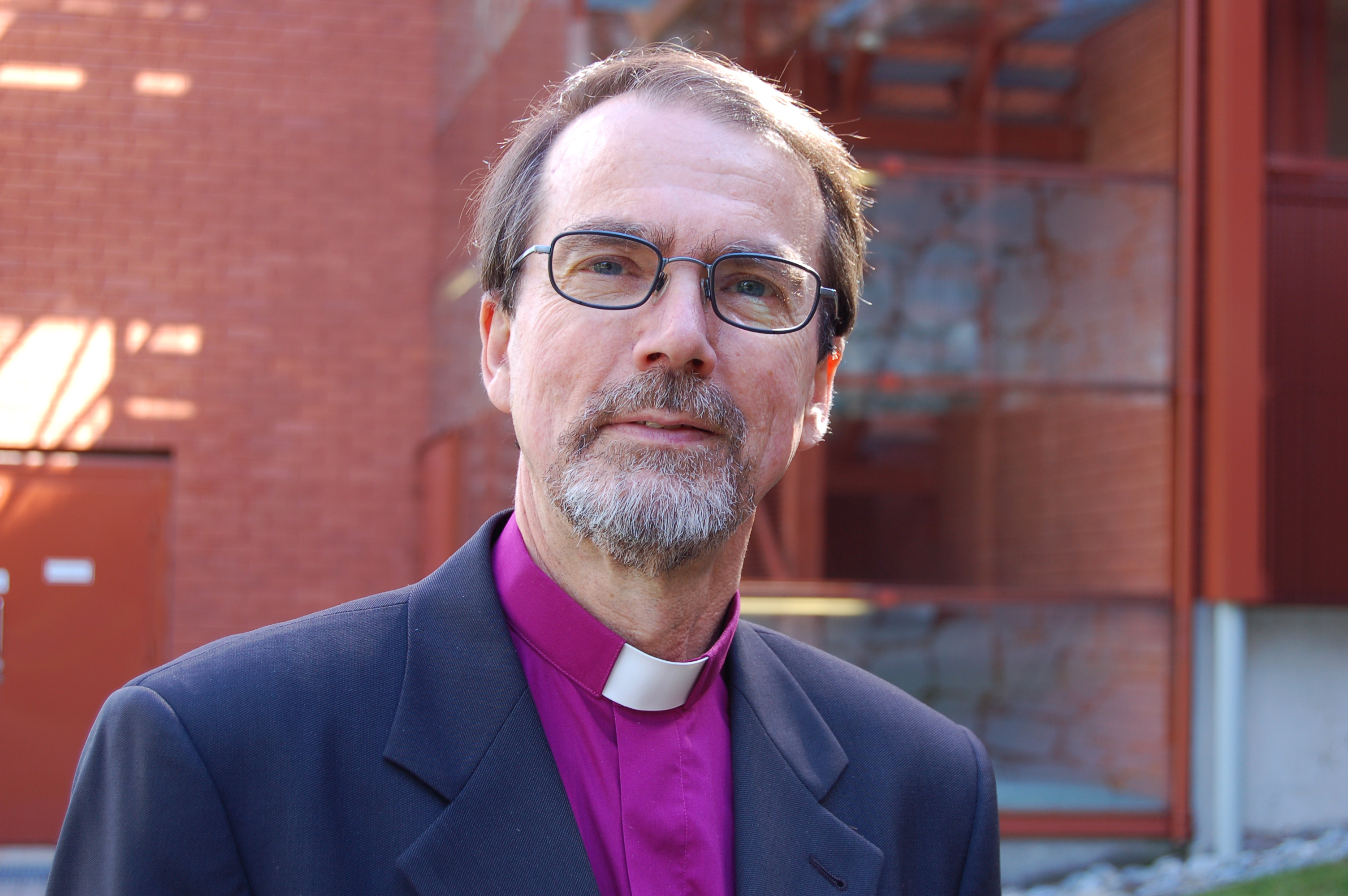 Mikko Heikka, Lutheran Bishop of Espoo, Finland